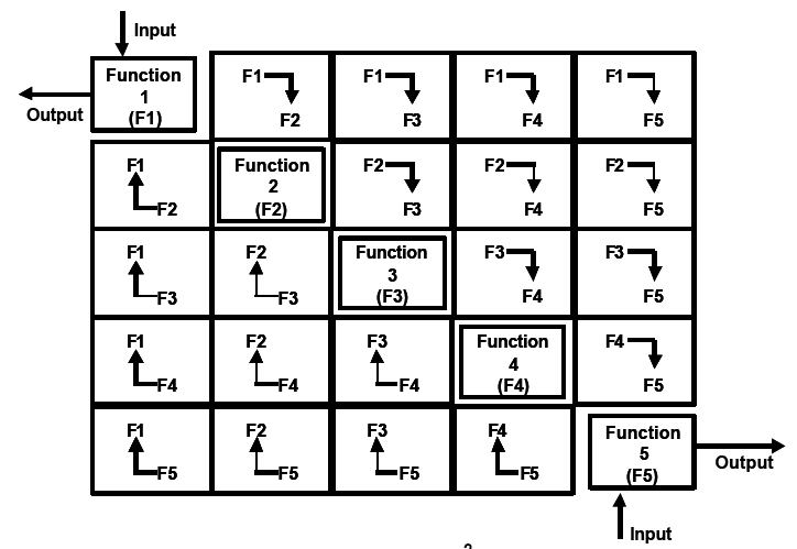 10 N2 Diagram